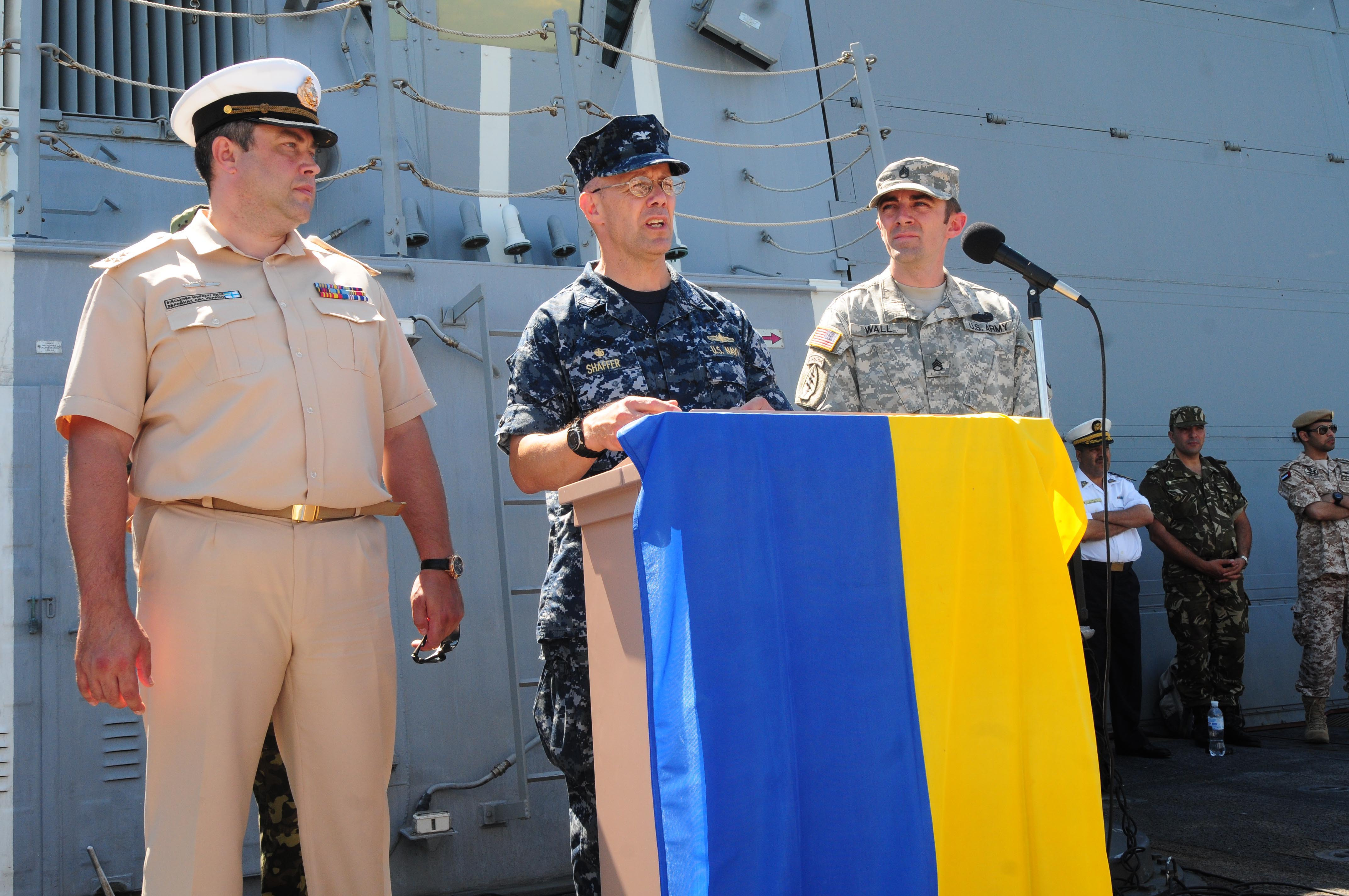 Capt. Dan Shaffer and Ukrainian navy Capt. Denis Berezovsky, commander, Exercise Sea Breeze 2012, left, speak to Ukrainian media aboard guided-missile destroyer USS Jason Dunham (DDG 109).